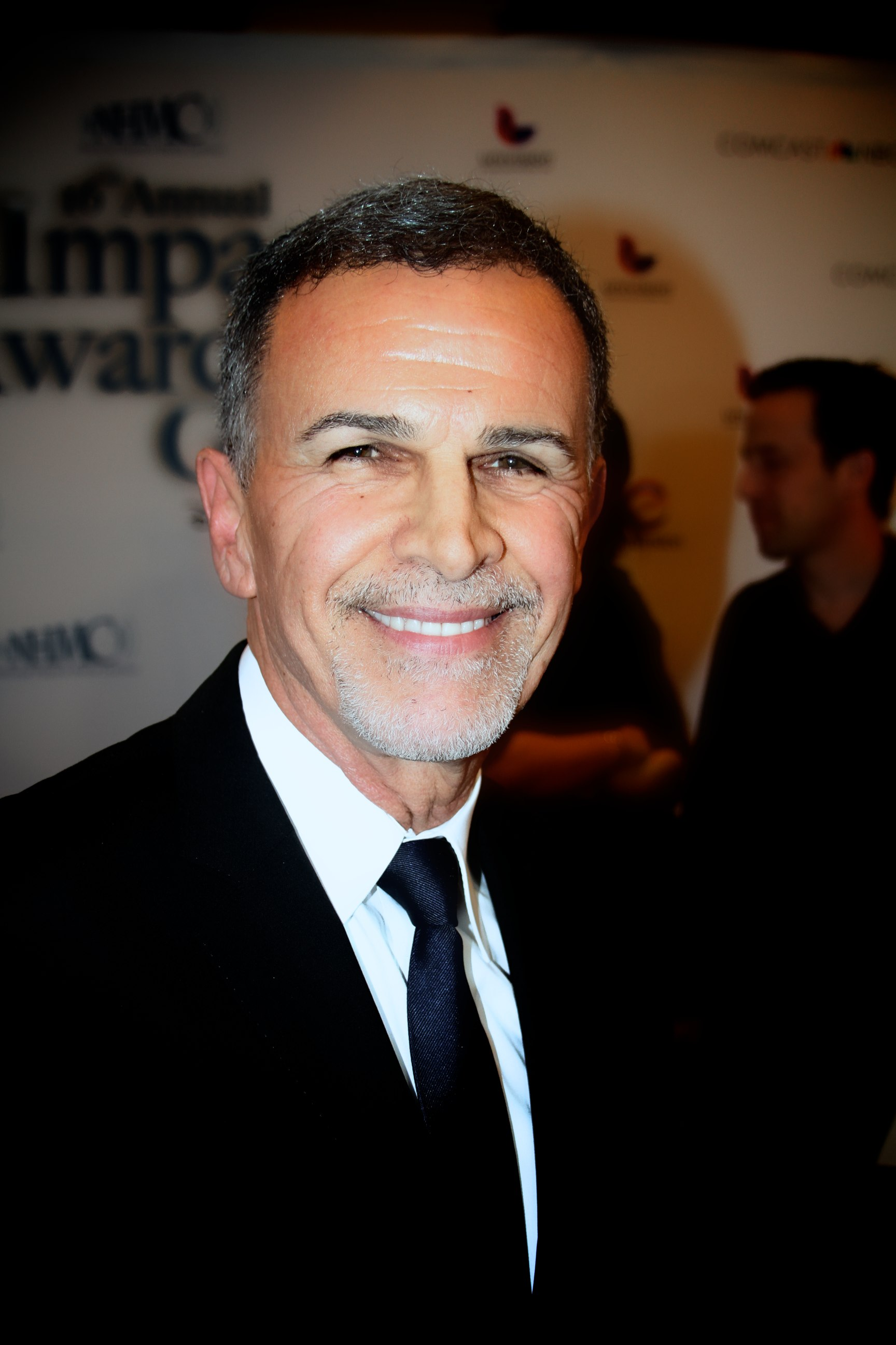 Actor Tony Plana at the National Hispanic Media Coalition, 16th Annual Impact Awards Gala